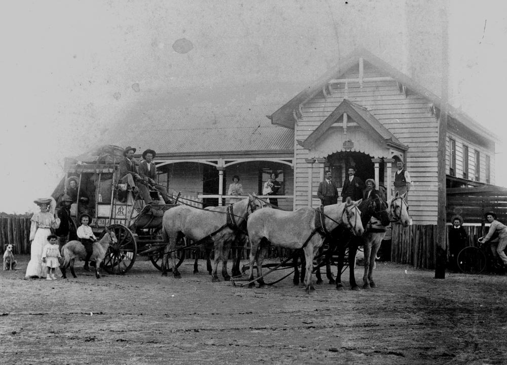 Stagecoach outside Adavale Post Office, 1907 Cobb and Co. stagecoach of the Charleville - Adavale run outside the Adavale Post Office, 1907. The driver is Steve Wall (Description supplied with photograph). The coach is loaded with bags and a passenger looks from the window. A group of people look on from the verandah and doorway of the post office. Two boys, including one on a bicycle, stand by the fence on the side of the road. Some people pose next to the stagecoach, including a well-dressed woman and a boy on a goat. A dog sits on the left.